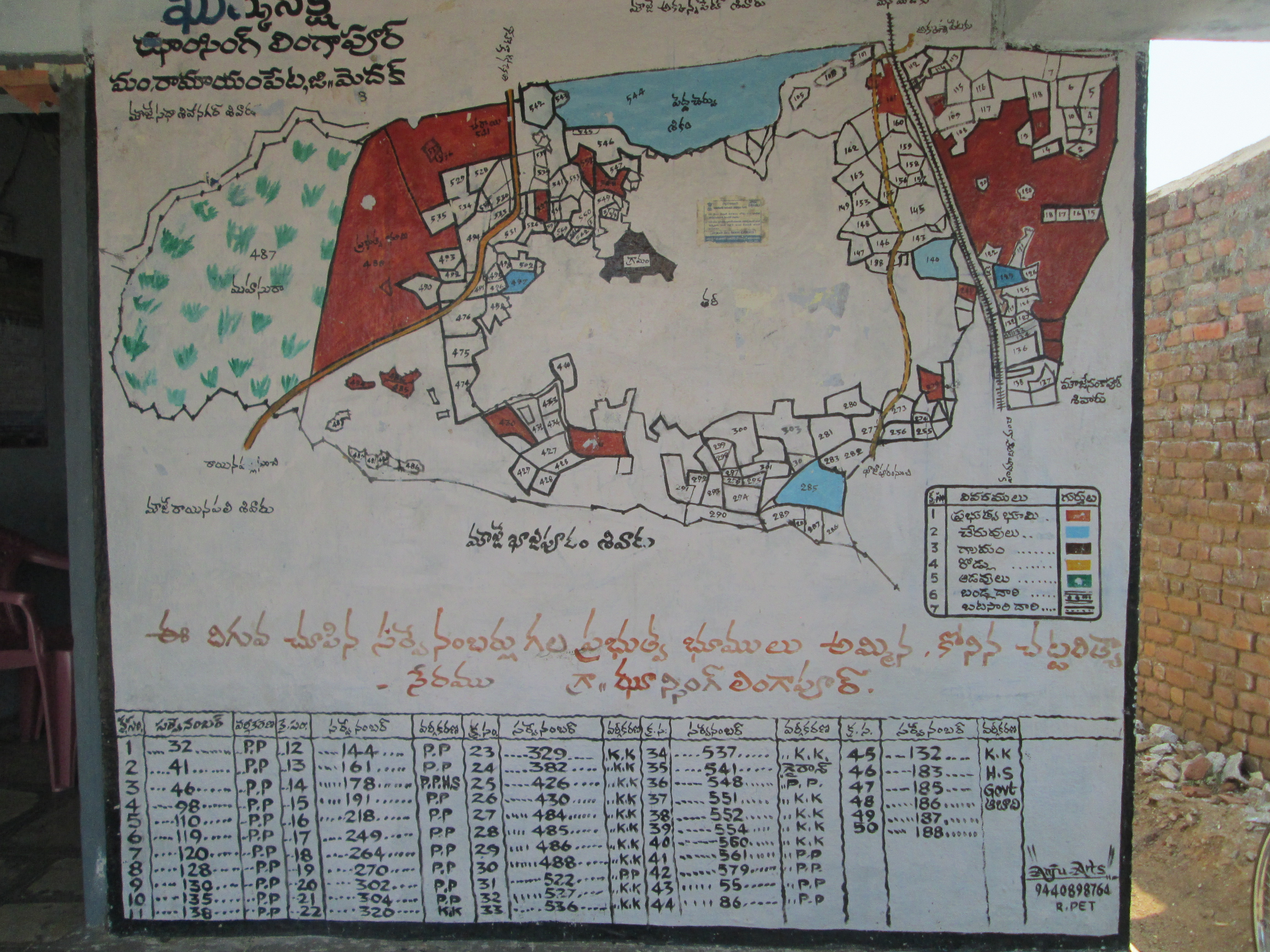 జాంసింగ్ లింగాపూర్